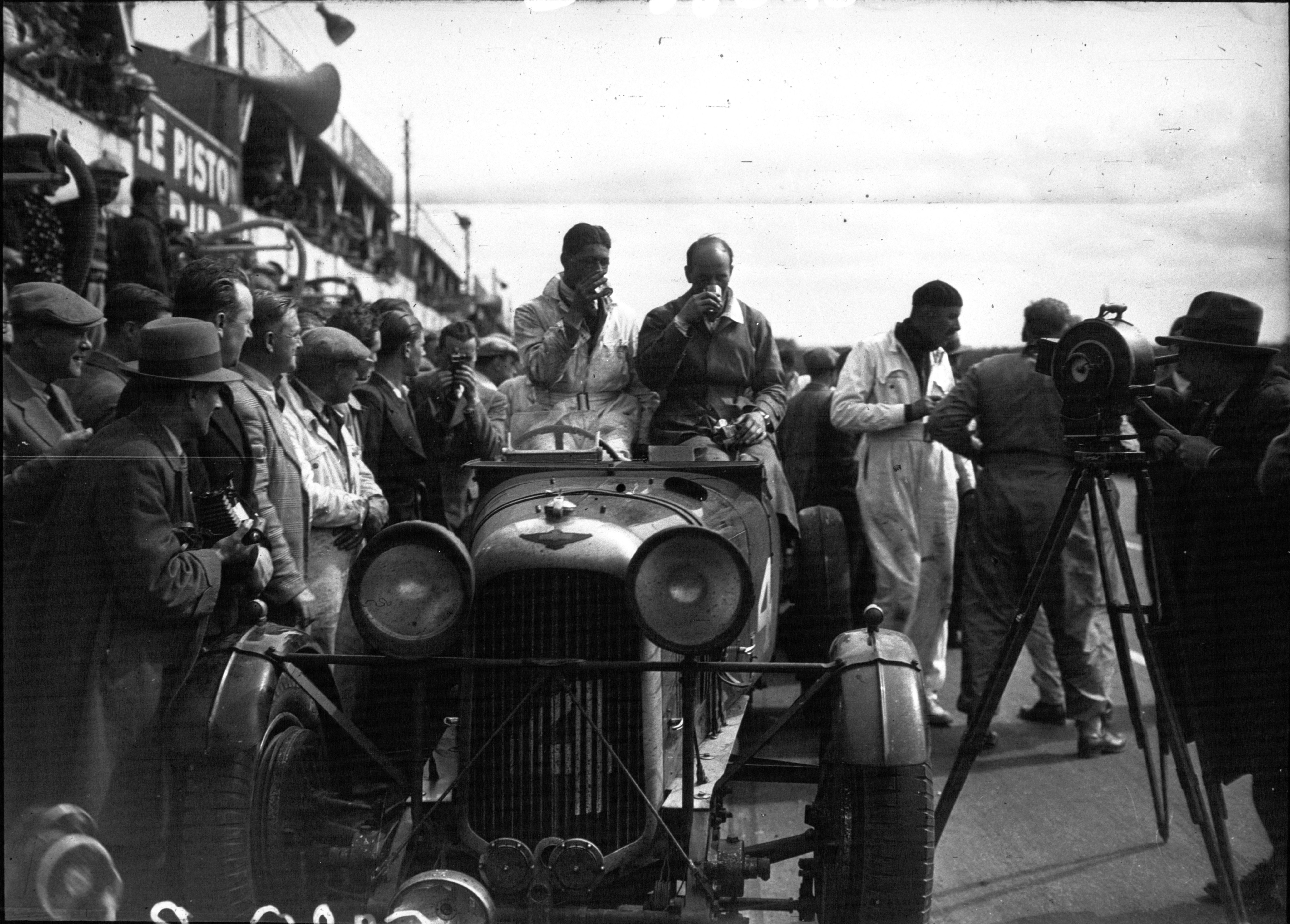 Hindmarsh and Fontés at the 1935 24 Hours of Le Mans.